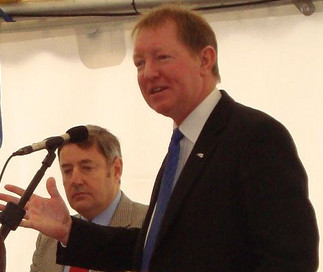 Nick Smith at the Agpac Opening, November 2009